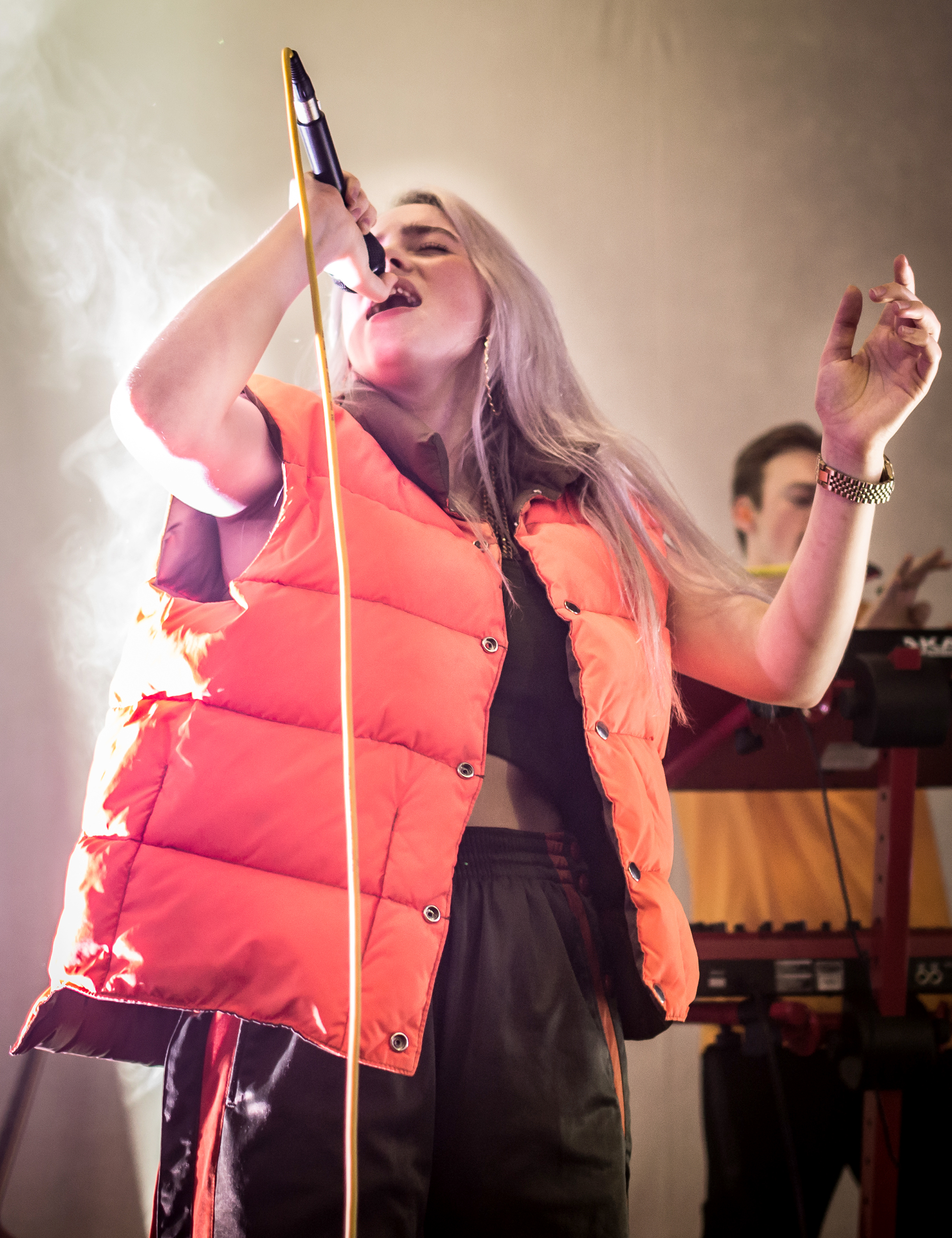 Billie Eilish performing live at The Hi Hat in Highland Park, Los Angeles, California, on Thursday, August 10, 2017.